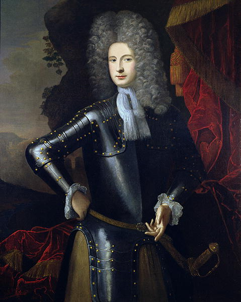 Henry Dillon, 8th Viscount Dillon (d. 1713)